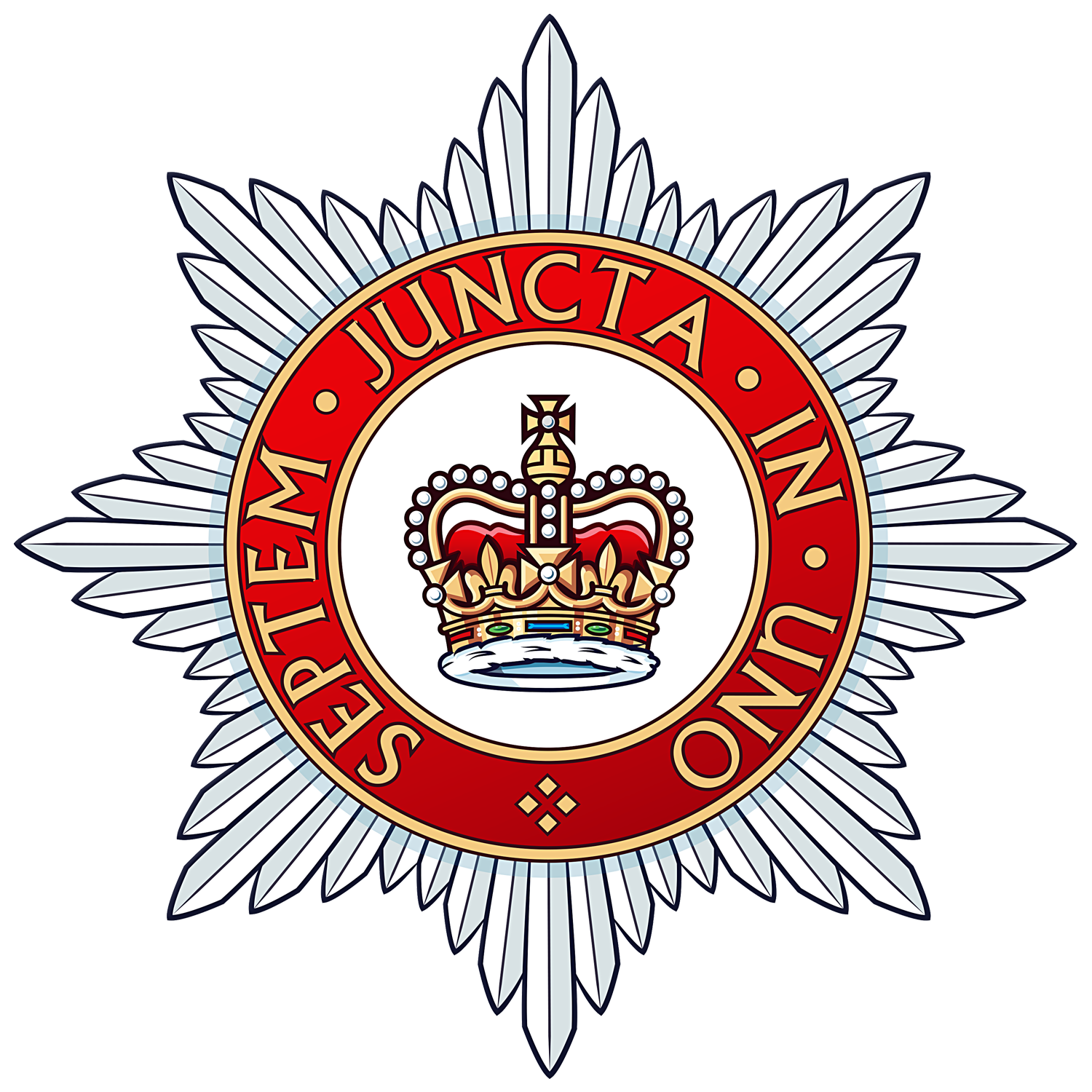 The regimental badge of the Household Division. The Household Division is a collection of elite regiments each with a distinguished service record that extends across many generations. It comprises of the two Mounted Regiments of the Household Cavalry and the five Foot Guards regiments. The Guards can trace their roots back to the 17th Century when the new Model Army was founded by Parliament after the English Civil War. Regiments have served continuously as the Sovereign’s official body guards ever since the Restoration of King Charles II. The Household Divisions perform both operational and ceremonial roles.